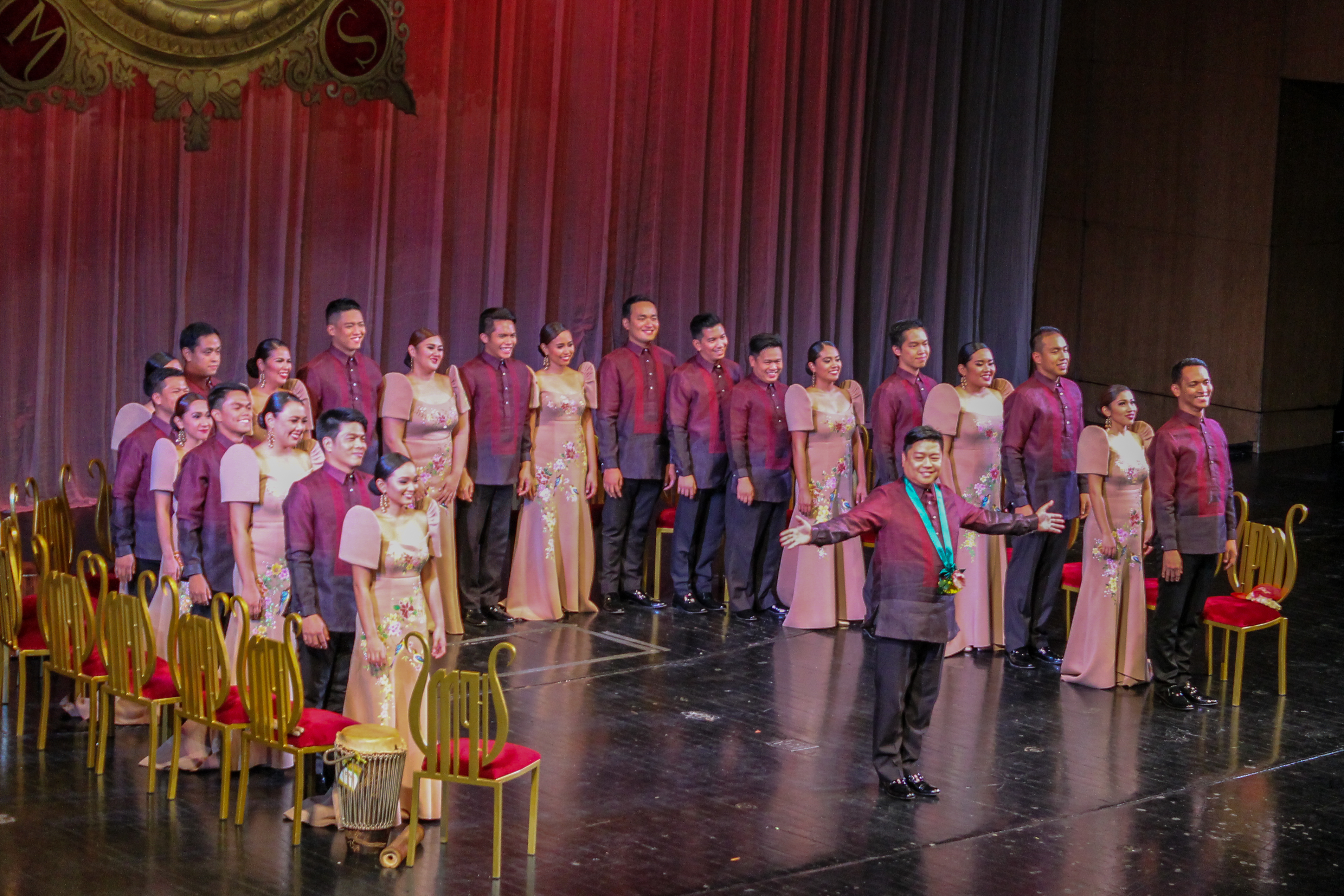 The Philippine Madrigal Singers acknowledges the audience at the end of their concert "Trionfo" (8 October 2016) at the Main Theater (Tanghalang Nicanor Abelardo of the Cultural Center of the Philippines. The concert was held to celebrate their victory at the Guidoneum (Guido d'Arezzo International Choral Festival) in Arezzo, Italy.